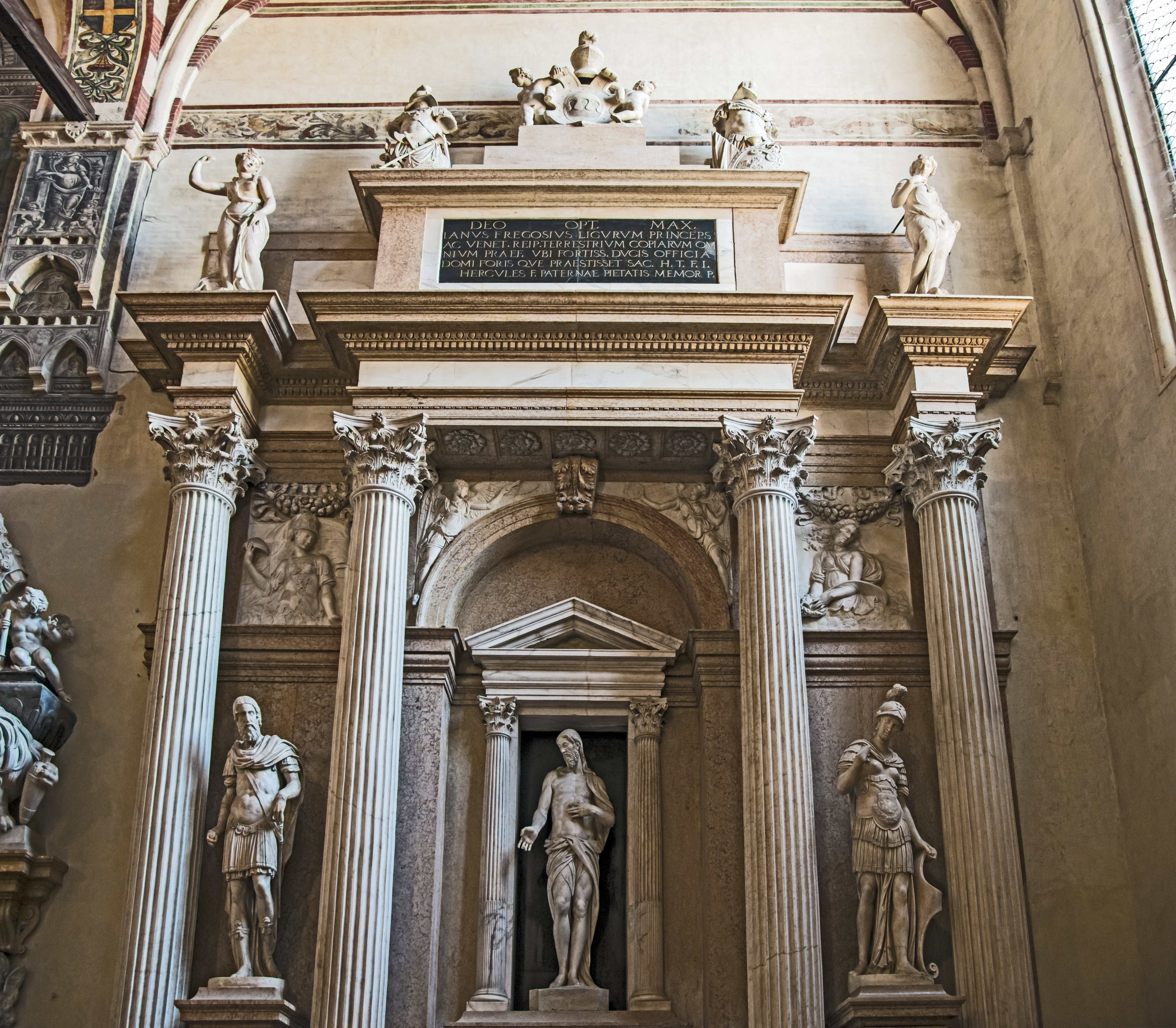 Basilica Santa Anastasia. Altar Baldieri. The altarpiece of the altar Fregoso by Danese Cattaneo.